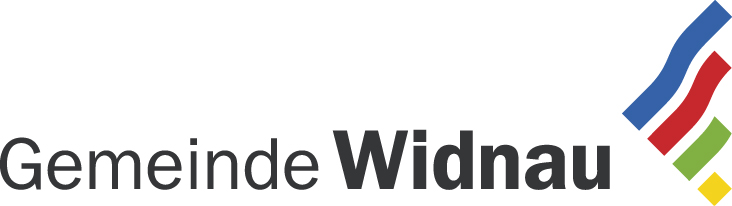 logo Widnau